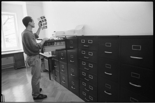 Photographer Andreas Bohnenstengel in his office in Munich (Germany) when evaluating his photographic archive